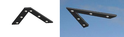 1997.3.13VUFO